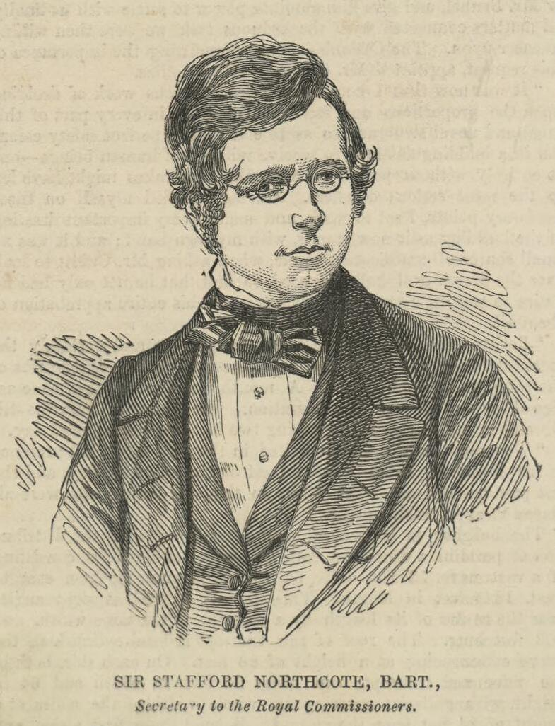 A portrait from the Welsh Portrait Collection at the National Library of Wales. Depicted person: Stafford Northcote, 1st Earl of Iddesleigh – British politician